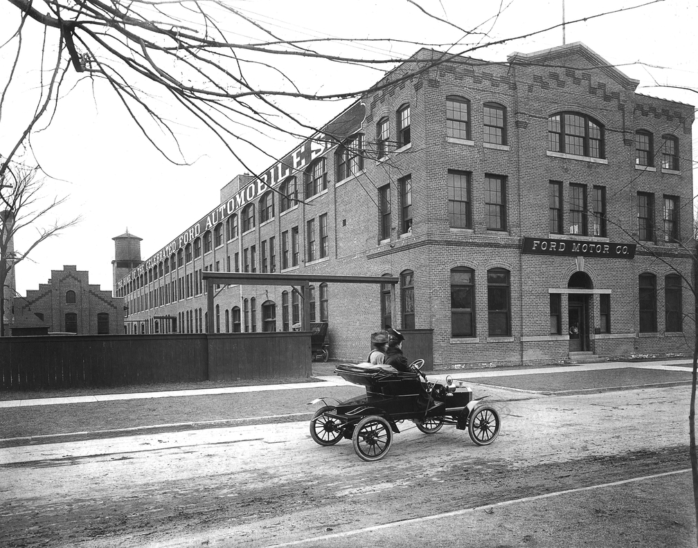 This photograph of the Ford Piquette Avenue Plant in Detroit, Michigan, was taken sometime around 1906 when Ford Motor Company occupied the building (it was built for the company in 1904). A Ford Model N (predecessor of the Ford Model T) can be seen driving east on Piquette Avenue in the foreground. Per the online archives of the Henry Ford here: [1], this picture was taken in 1905; however, a very similar picture in the same archives here: [2] is dated 1906. 1906 is the most plausible date for when this picture was taken, as engines for the Ford Model N did not begin to be produced until the spring of 1906. Source: National Historic Landmark Nomination – Ford Piquette Avenue Plant, p. 15